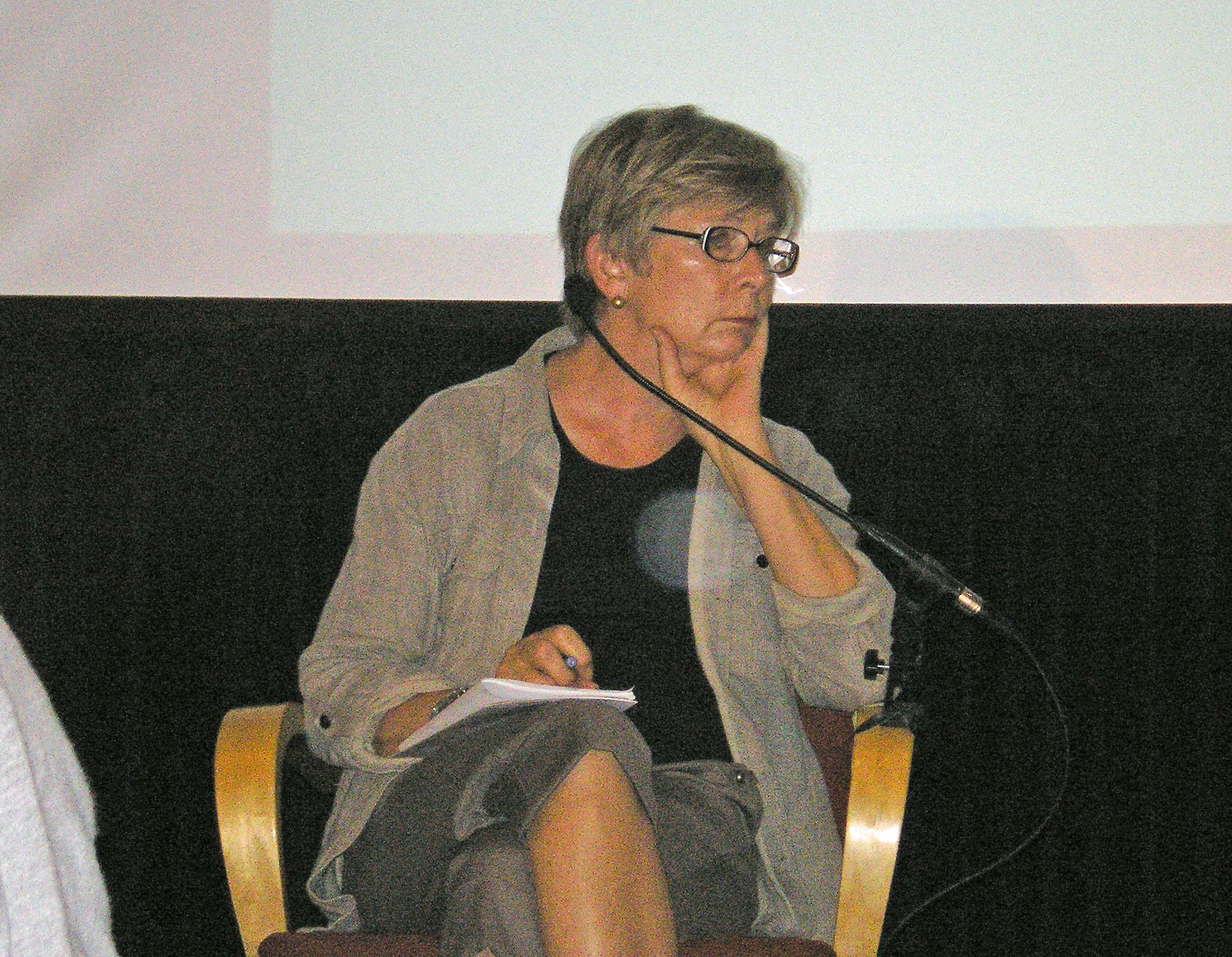 Barbara Ehrenreich by David Shankbone, New York City